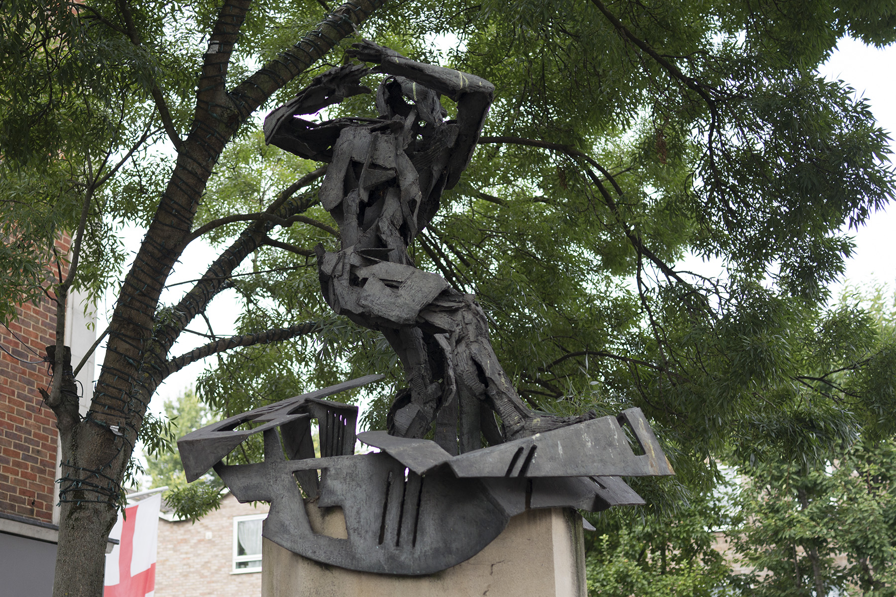 Commissioned in 1989 for Kingston Upon Thames, a bronze sculpture sited on the Old London Road at the Junction of Queen Elizabeth Road.